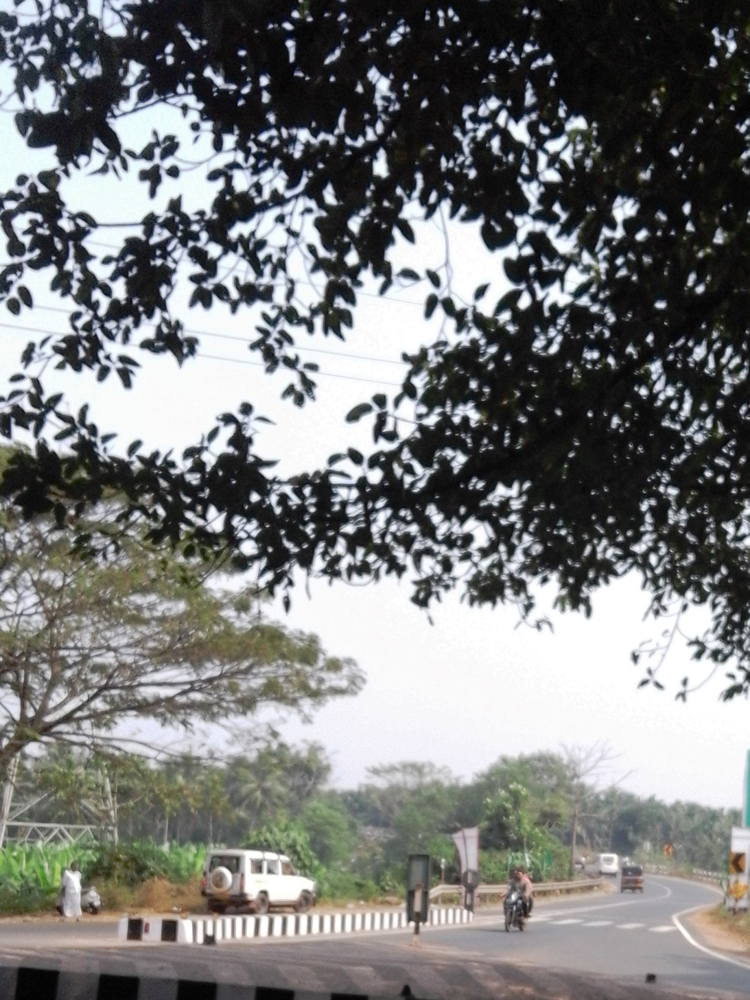 Kolappuram, Tirurangadi, Malappuram District, Kerala province, India.